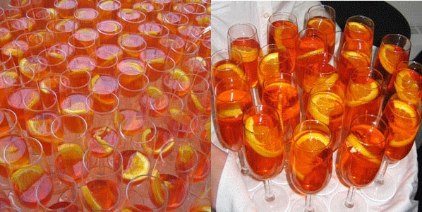 Spritz made with Aperol